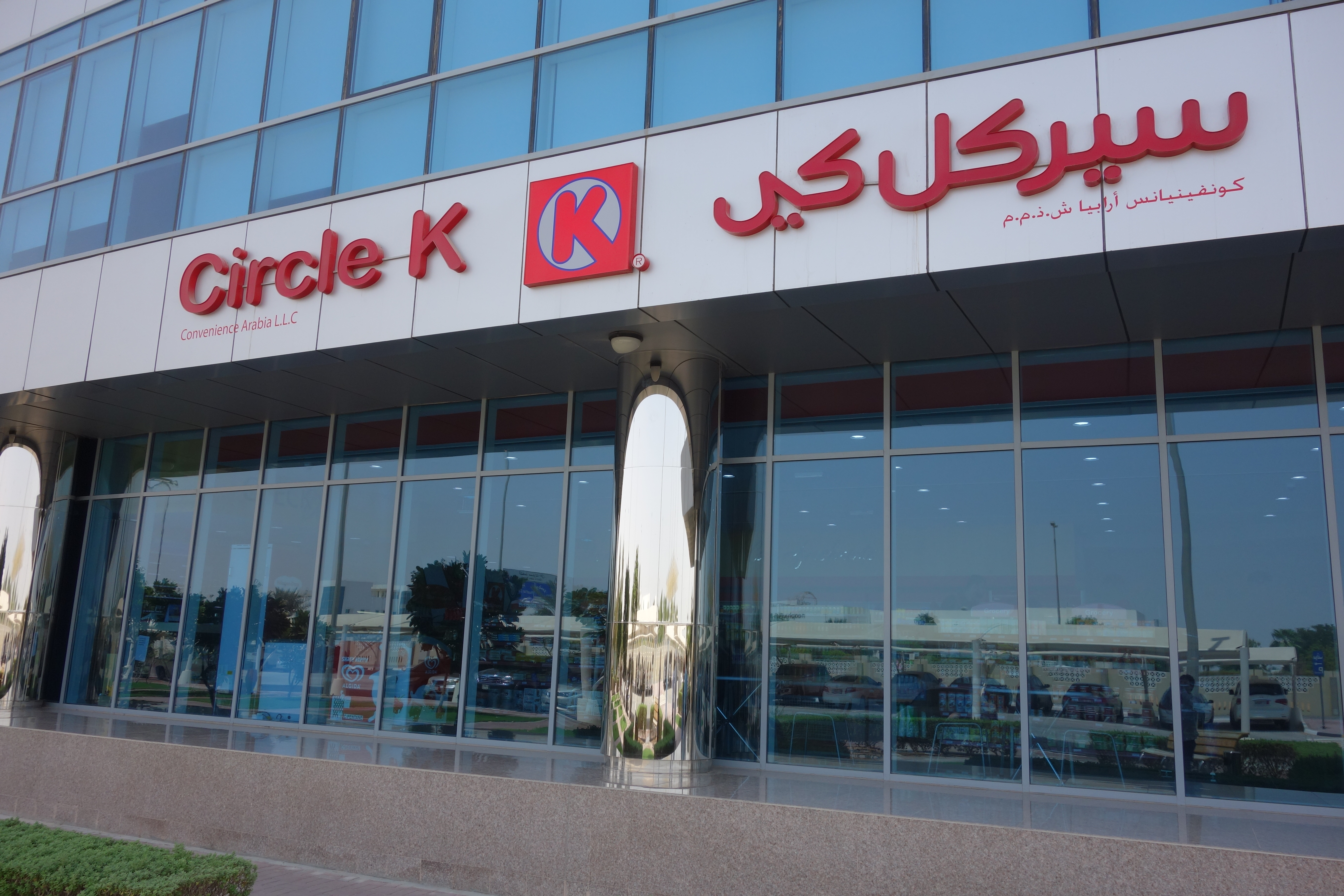 Circle K, in Abu Dhabi.